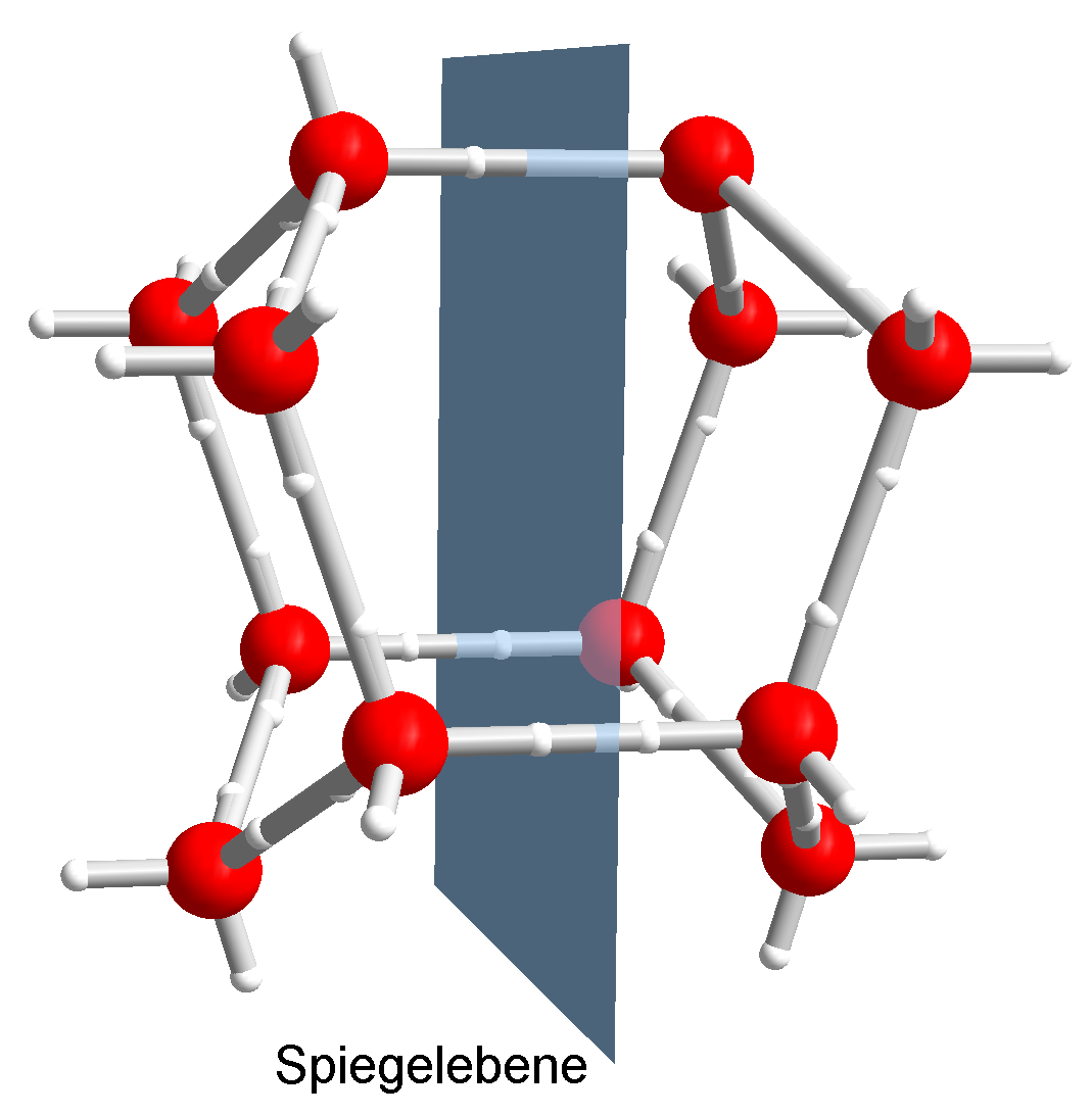 Mirror plane in the structure of ice. Created using Diamond 4. Data from Goto, A.; Hondoh, T.; Mae, S., The electron density distribution in ice Ih determined by single-crystal X-ray diffractometry , Journal of Chemical Physics, 93, 1412-1417 (1990)